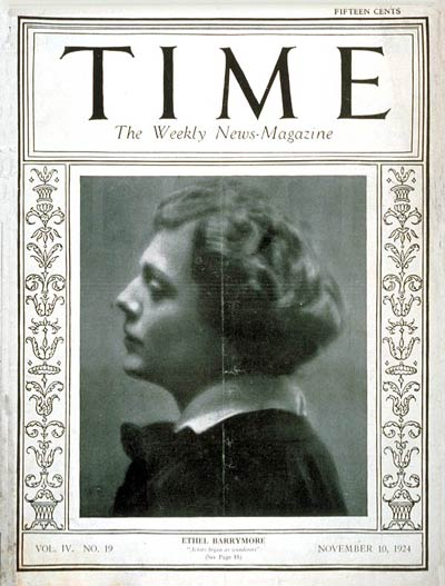 TIME Magazine Cover Featuring Ethel Barrymore (10 Nov 1924)